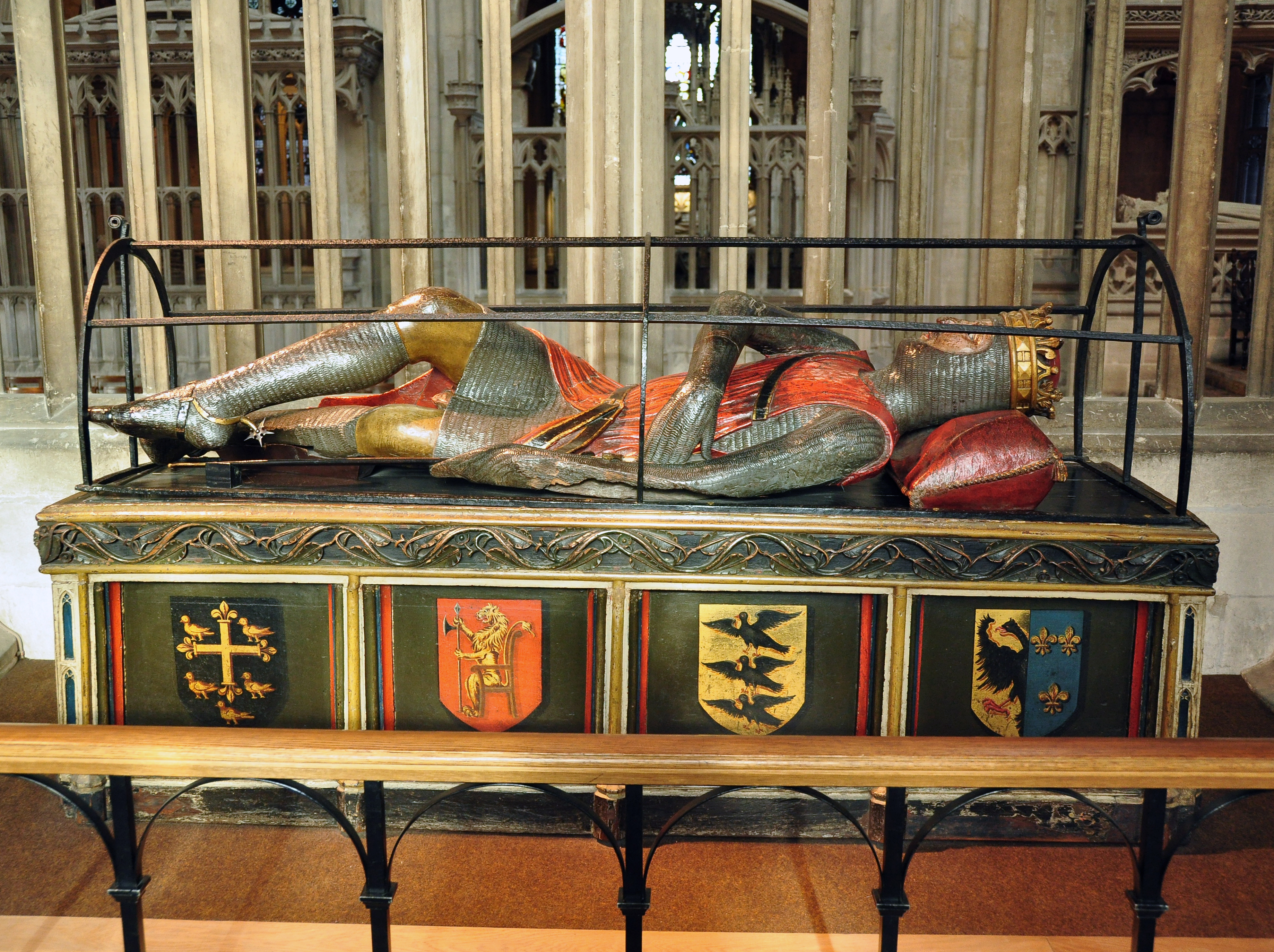 The tomb of Robert Curthrose in Gloucester Cathedral.